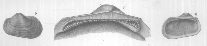 Striarca centenaria (Say, 1824), Arcidae, Bivalvia, Mollusca, from Whitfield 1894: pl.6, figs.5-7